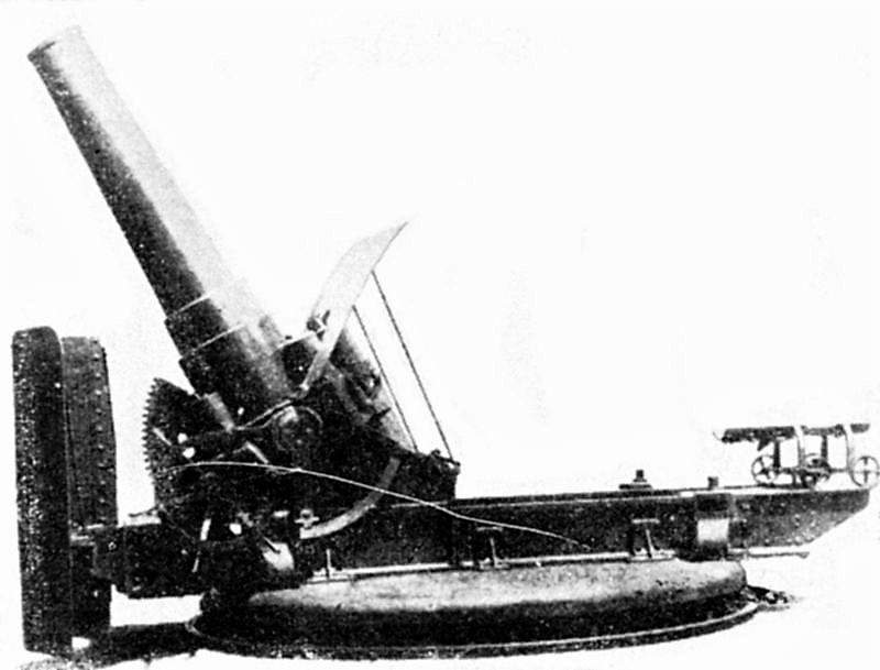 A Japanese Type 45 240 mm howitzer. Used by the Japanese during World War II.